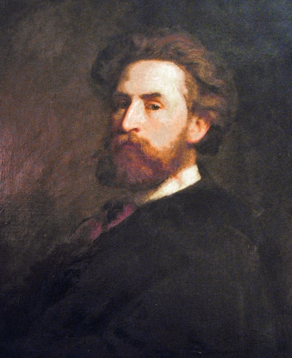 Rudolf Epp (1834-1910), Self-portrait